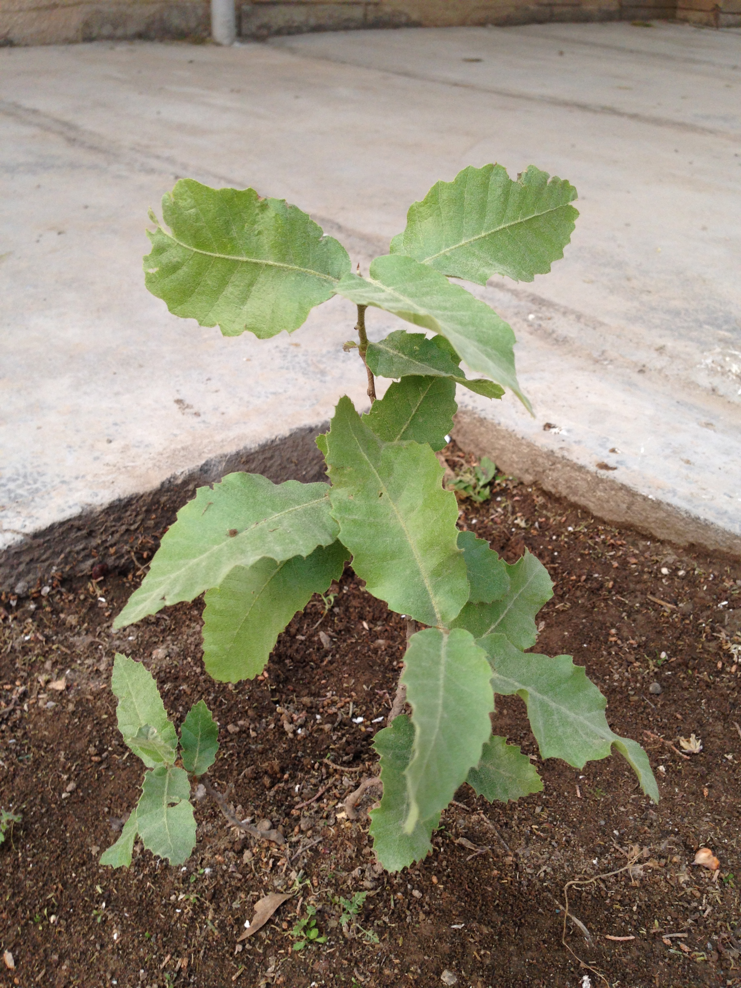 Quercus brantii (Quercus persica), Kermanshah, Iran